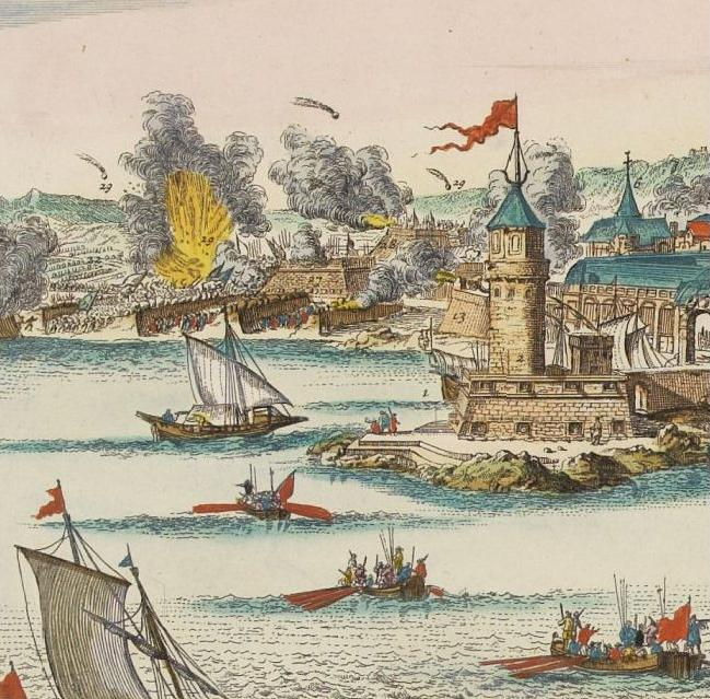 Girit'in fethi